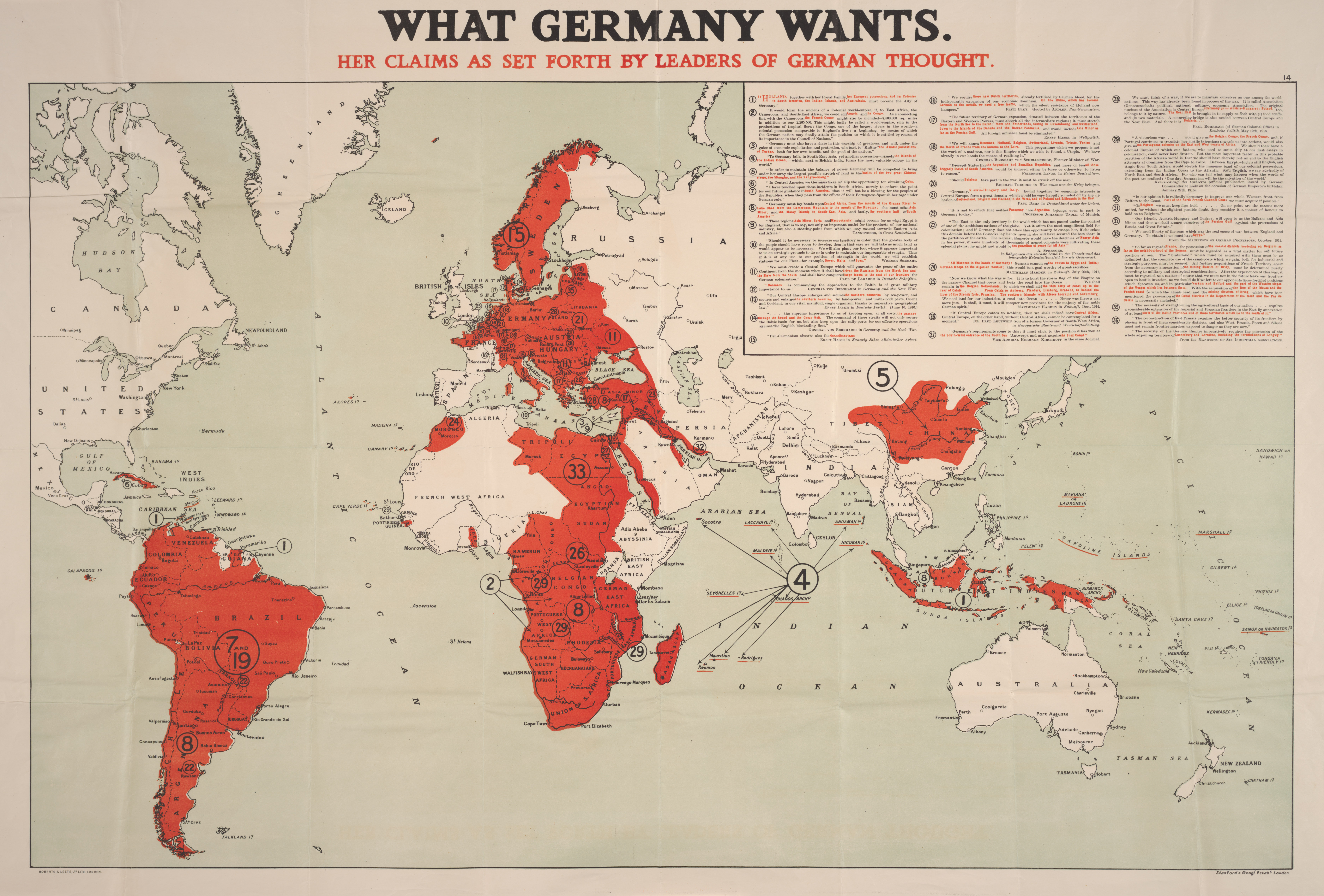 A reproduction of a world map that marks the areas that "Germany Wants" by Edward Stanford in 1917.